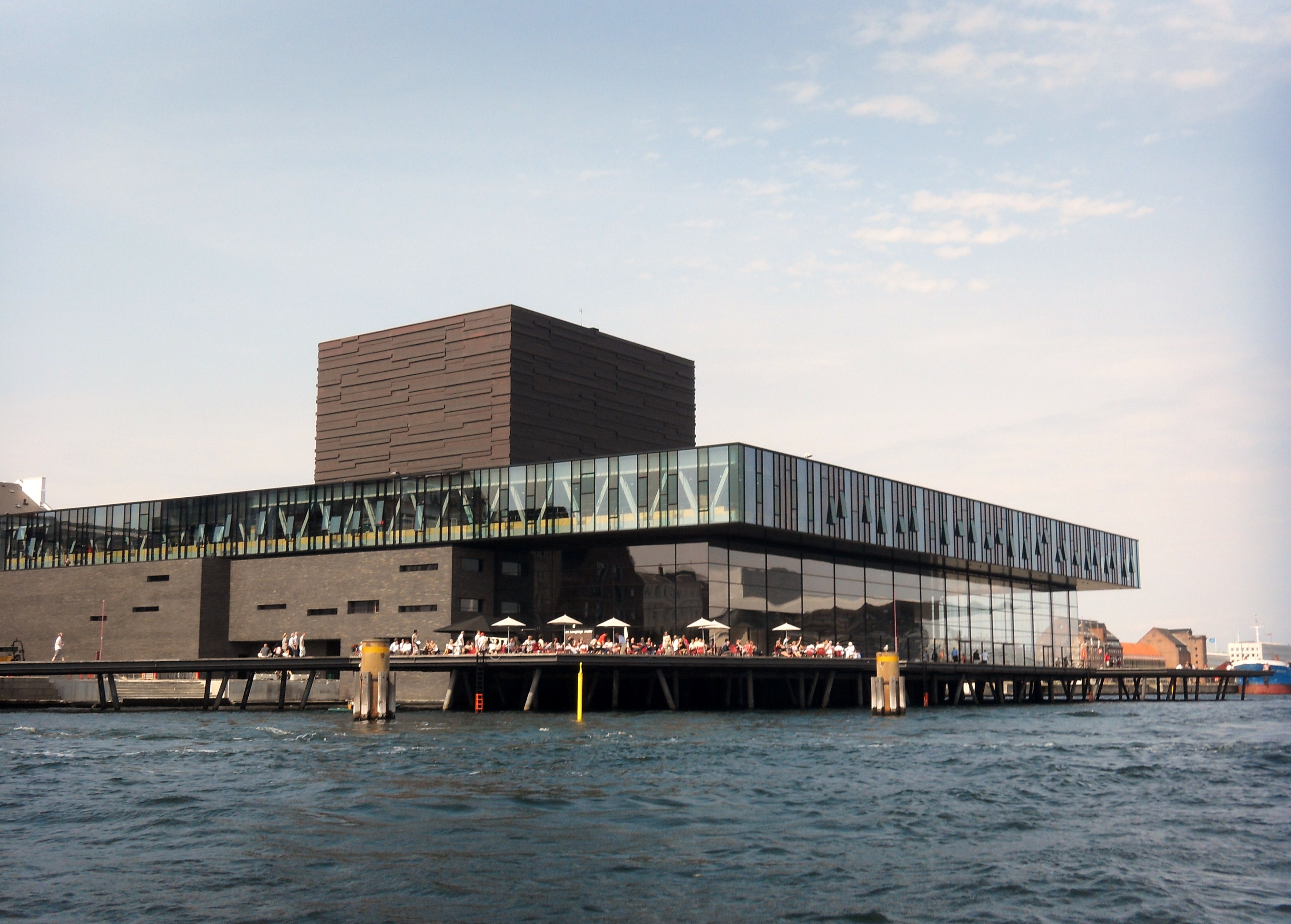 New Playhouse, Copenhagen